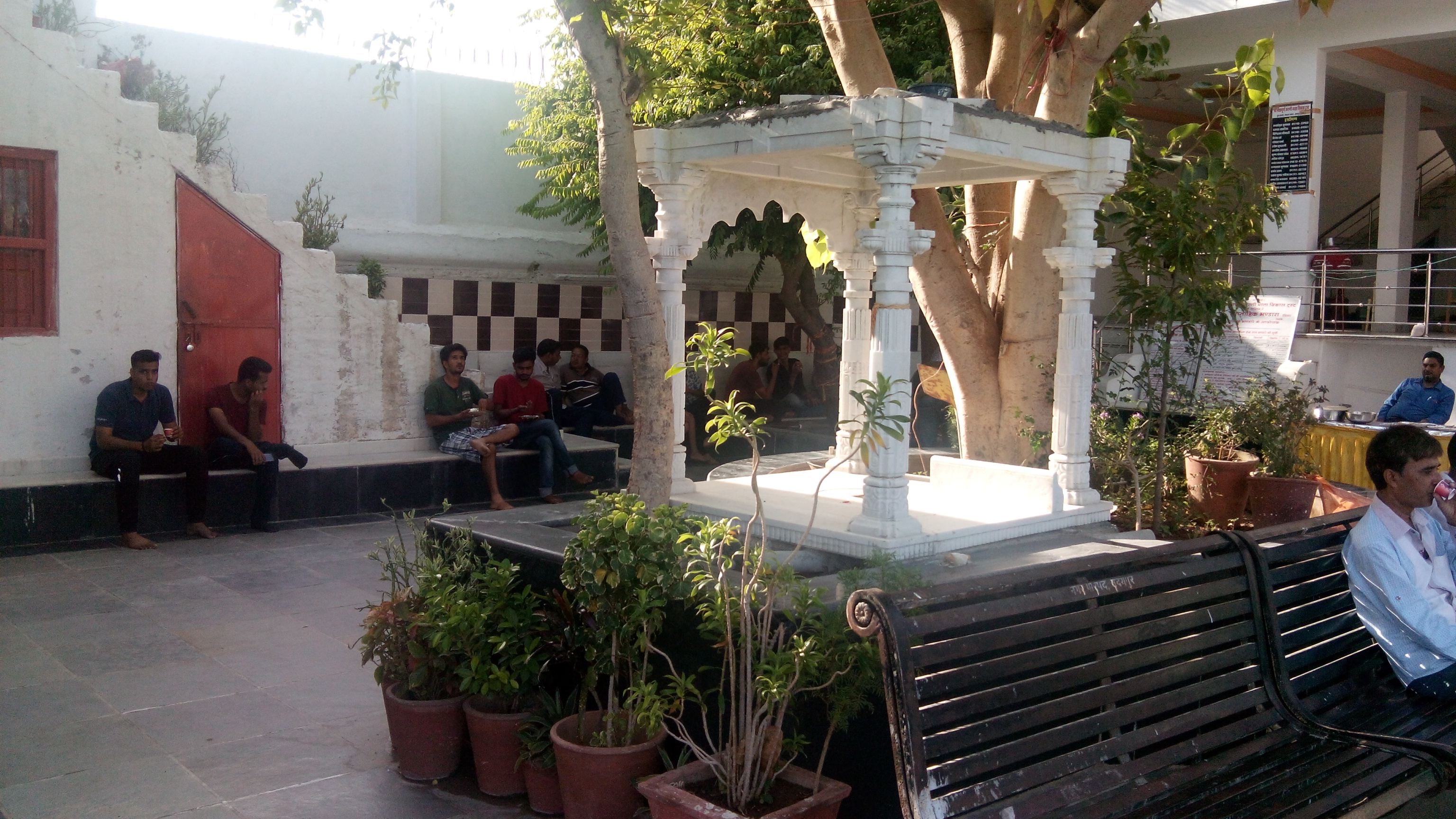 A picture showing view from inside area of Karni Mata Temple, showing a marble structure with four pillars in the courtyard area of the temple.